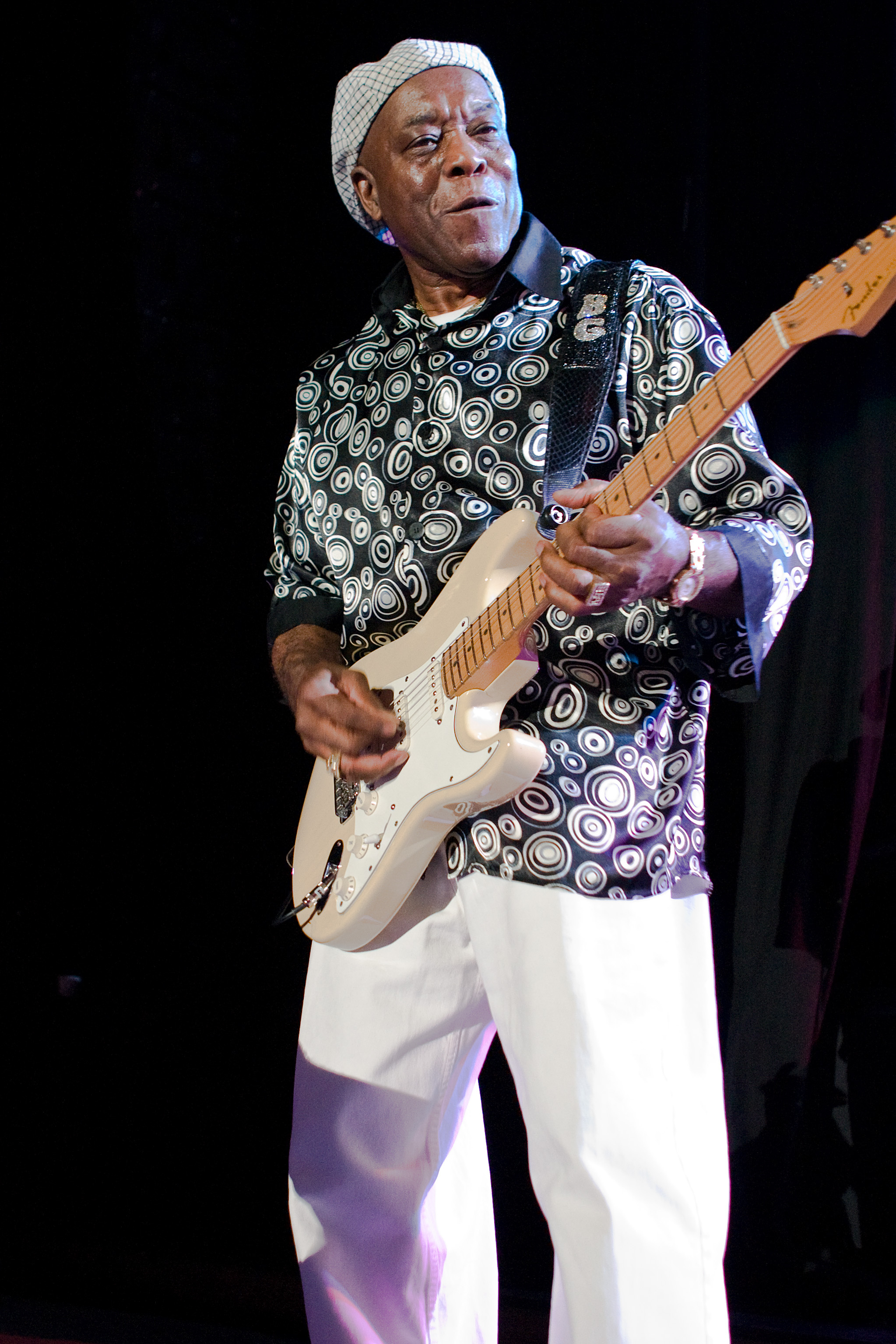 Buddy Guy in a 2008 performance